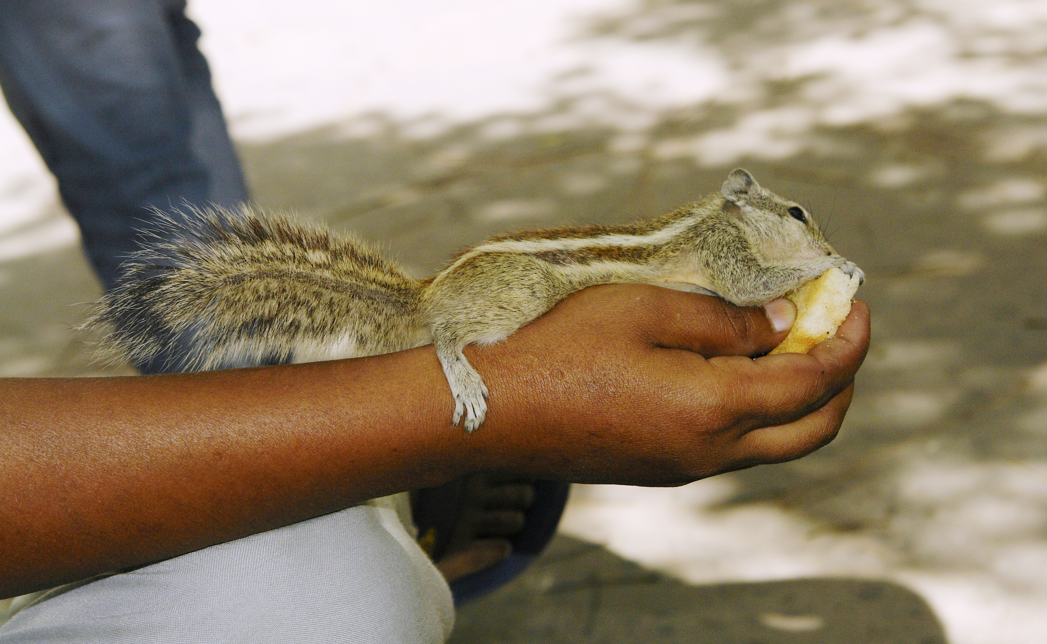 Squirrel on hand (Funambulus pennantii), Taj Mahal, Agra, India.